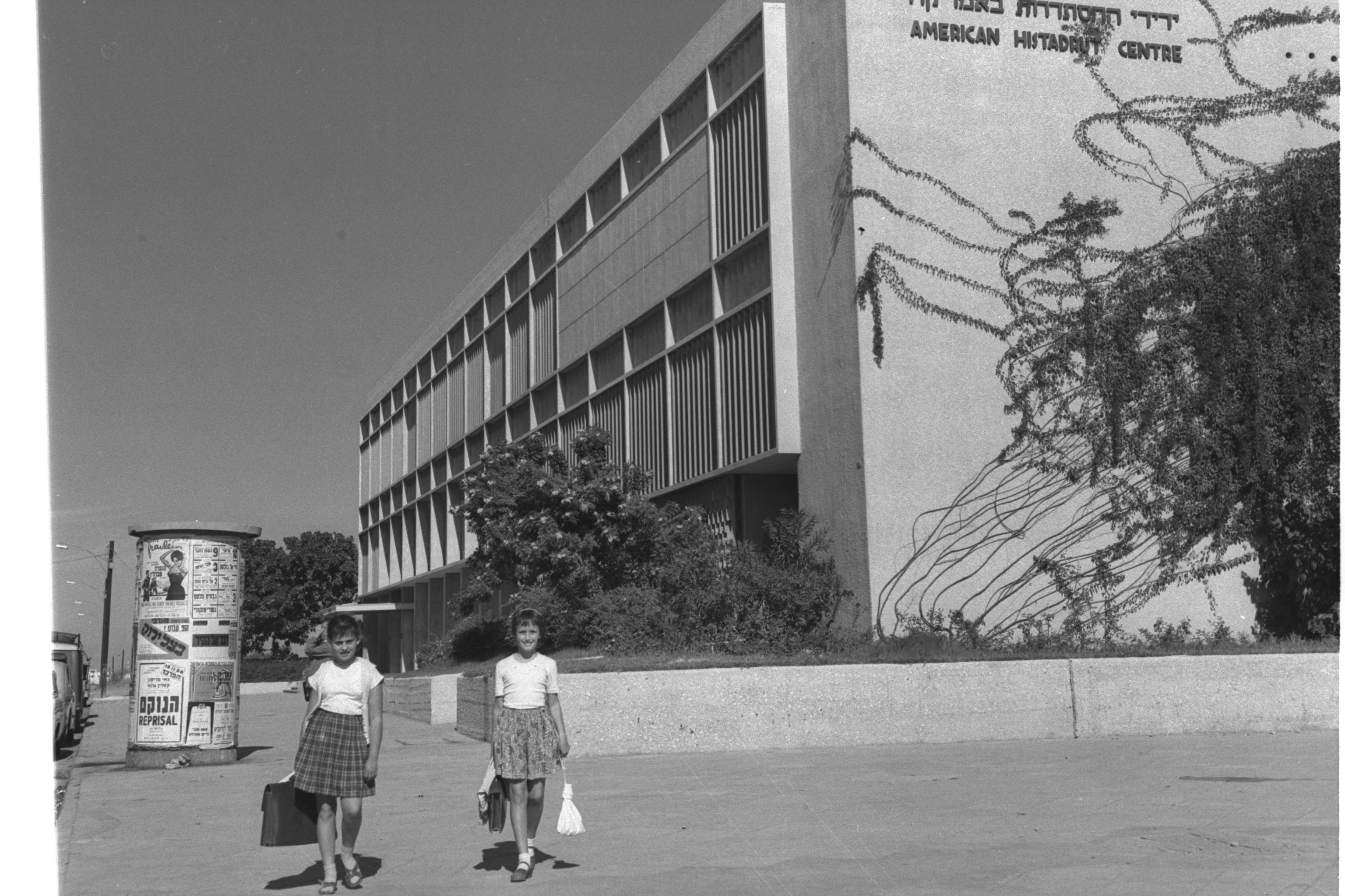 Beit Lessin, Tel Aviv (1958). Modern movement style architecture in Tel Aviv-Yaffo.